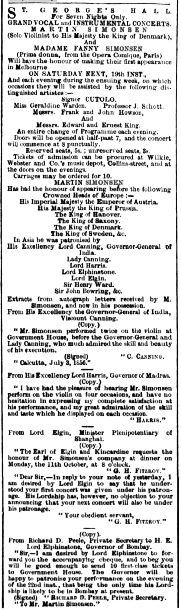 1865 advertisement in an Australian newspaper for a concert by singer Fanny Simonsen and violinist Martin Simonsen listing their credentials and some references.